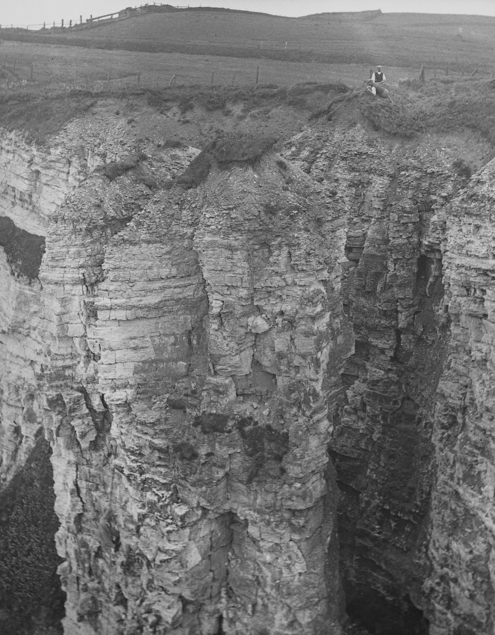 View of the top of part of the cliffs at Bempton, where there are buttresses and "chimneys". At the top two men can be seen with a rope running down to the cliff top from them. They are in shirt-sleeves but are too small to see in detail. There is probably a climber on the cliff face, but he cannot be picked out. "Hateley Shute" is presumably one of the "chimneys".